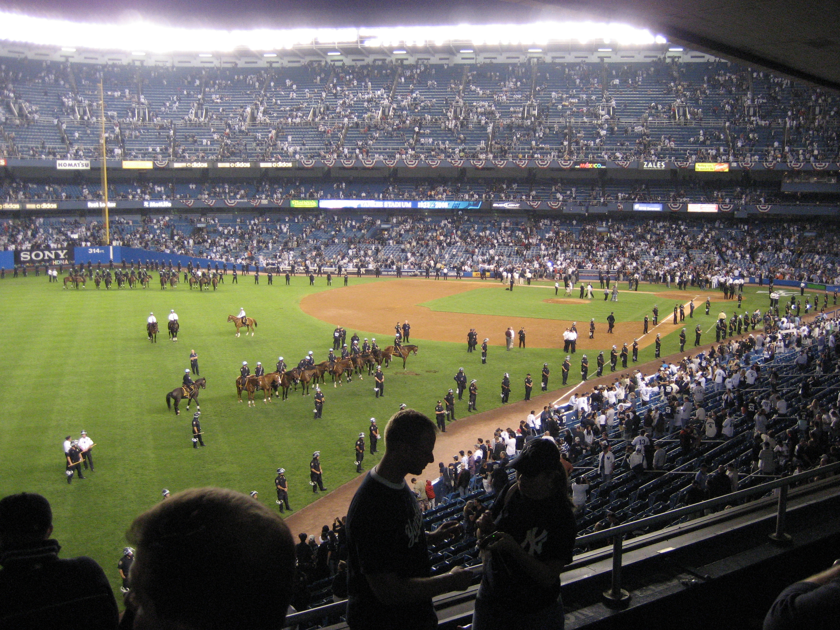 Description The Yankees' field, after the last Yankee game at the old stadium. DateSeptember 21, 2008SourceI created this work entirely by myself.AuthorDvdkid919 (talk) 21:18, 22 November 2008 . . Dvdkid919 . . 2,816×2,112 (3.52 MB) The Yankees' field, after the last Yankee game at the old stadium.